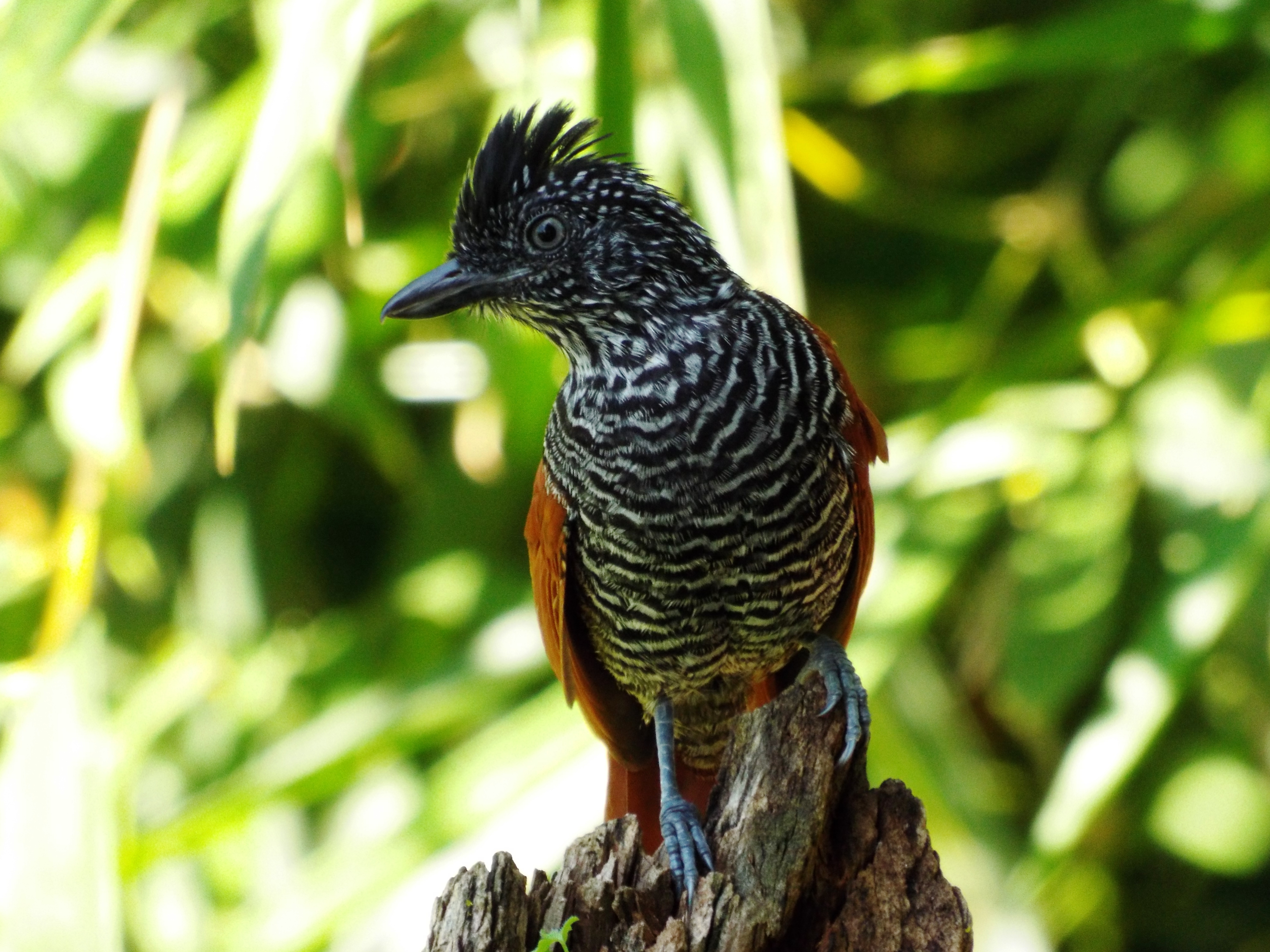 Ave comum em ambiente de bordas.